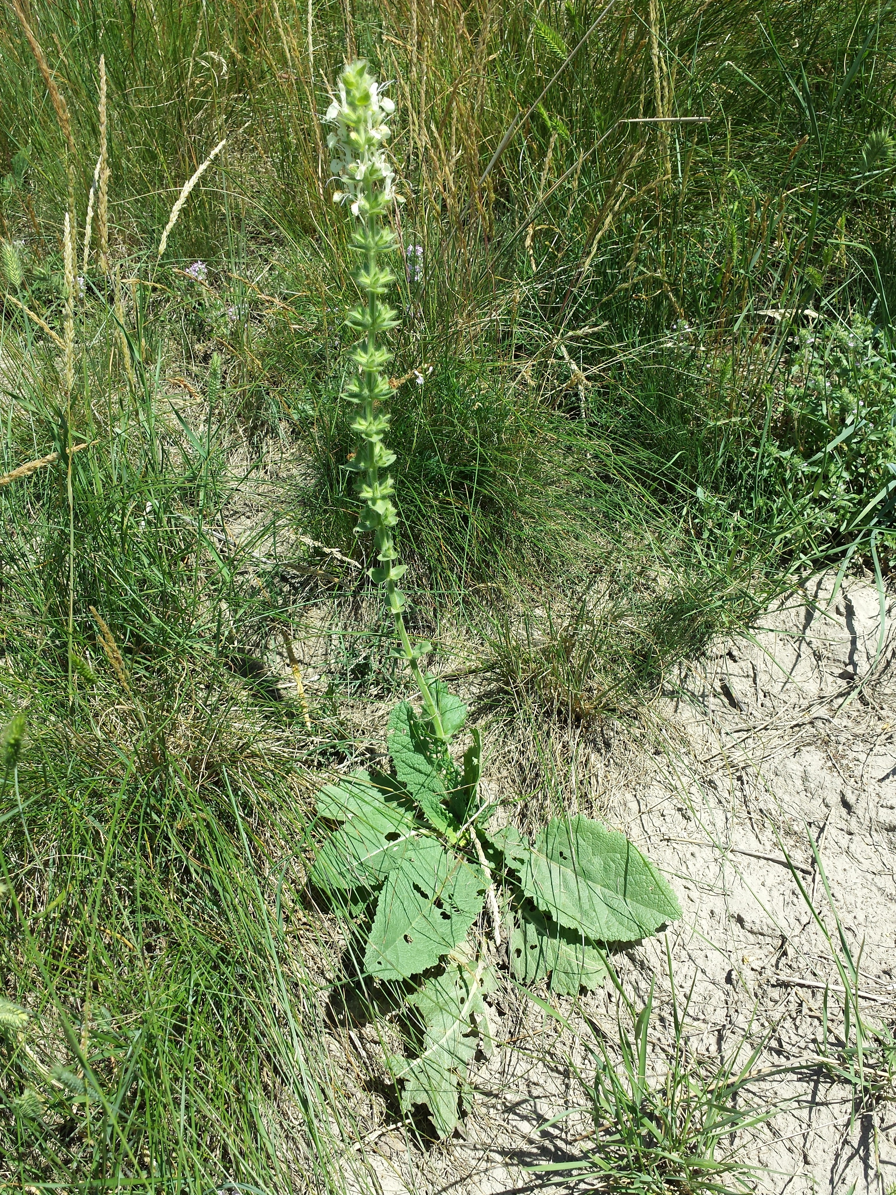 Habitus Taxonym: Salvia austriaca ss Fischer et al. EfÖLS 2008 ISBN 978-3-85474-187-9; det. Gergely Király 2015-06-06 Location: Loess hills next Belsőbáránd, Fejér County, Hungary - ca. 120 m a.s.l. Habitat: dry grassland on Loess